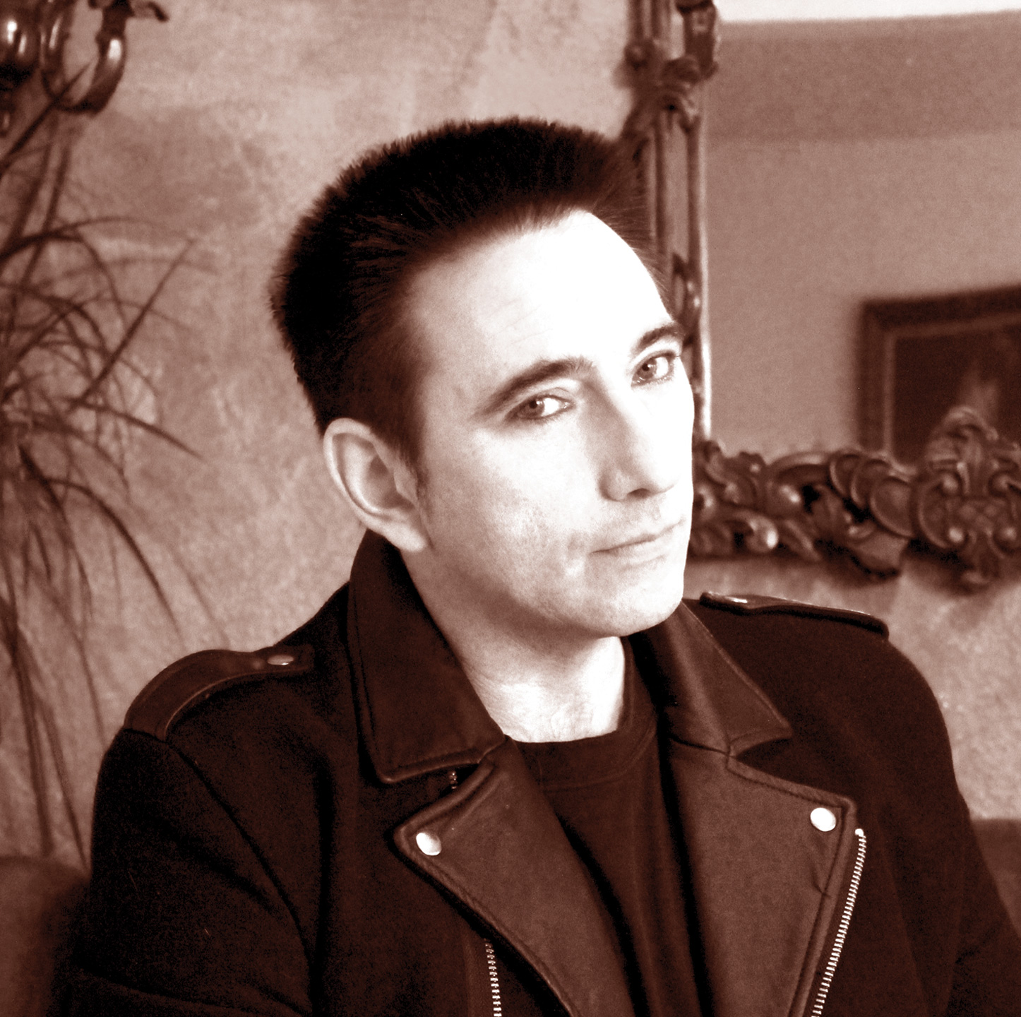 Thomas Lüdke ( The Invincible Spirit )